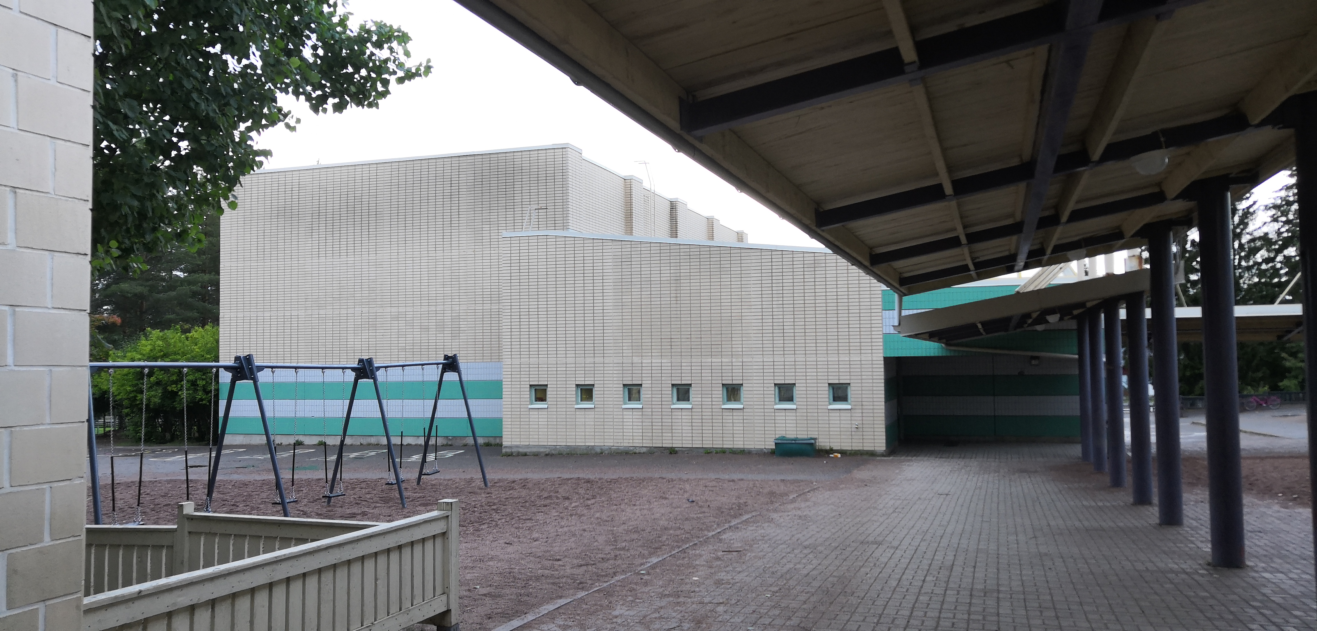 Vahteron koulun liikuntasali ulkoa